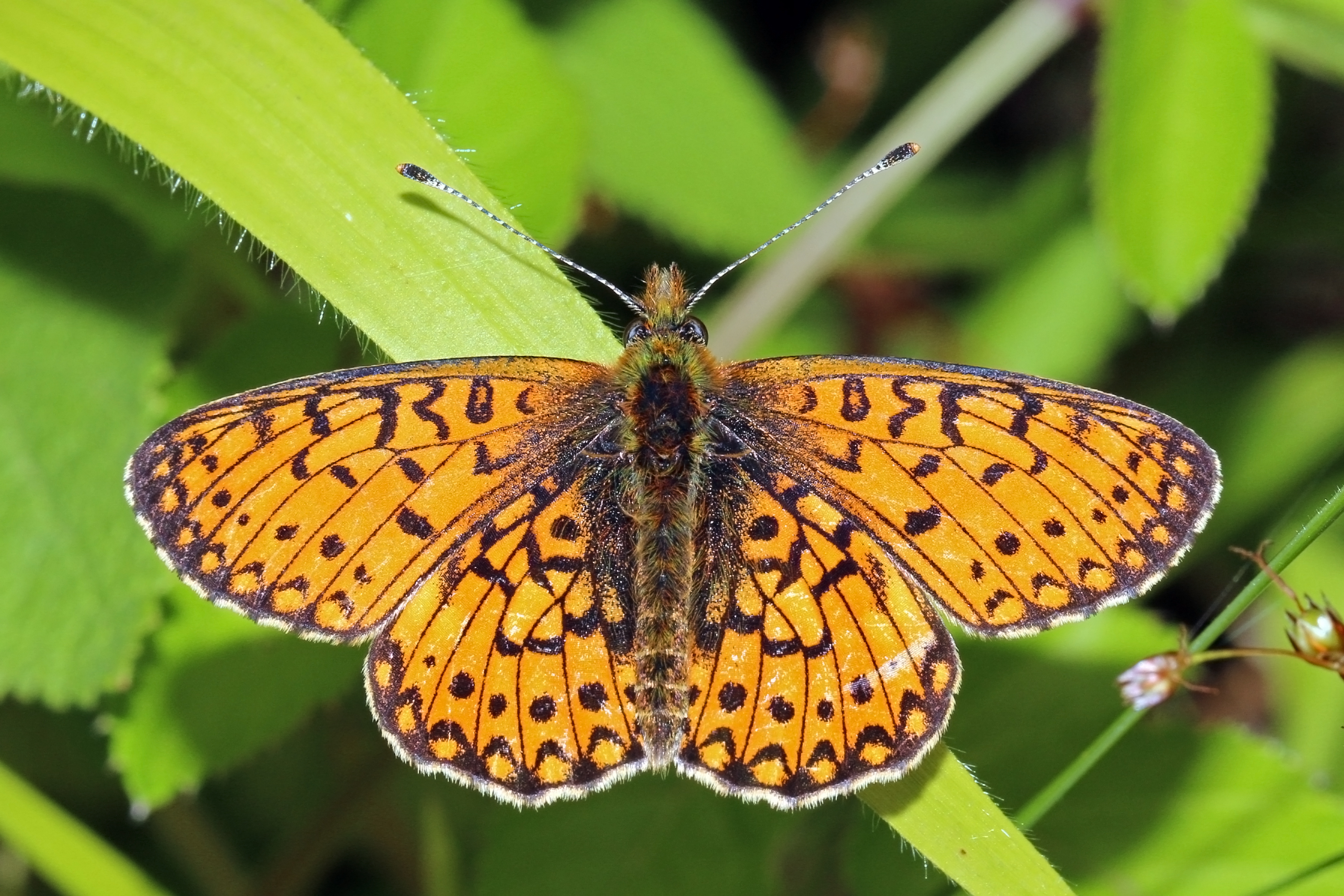 The small pearl-bordered fritillary (Boloria selene) is one of the UK's rarer butterflies and the peak time to find them is the beginning of June. Wyre Forest, Worcestershire is one prime location in England.